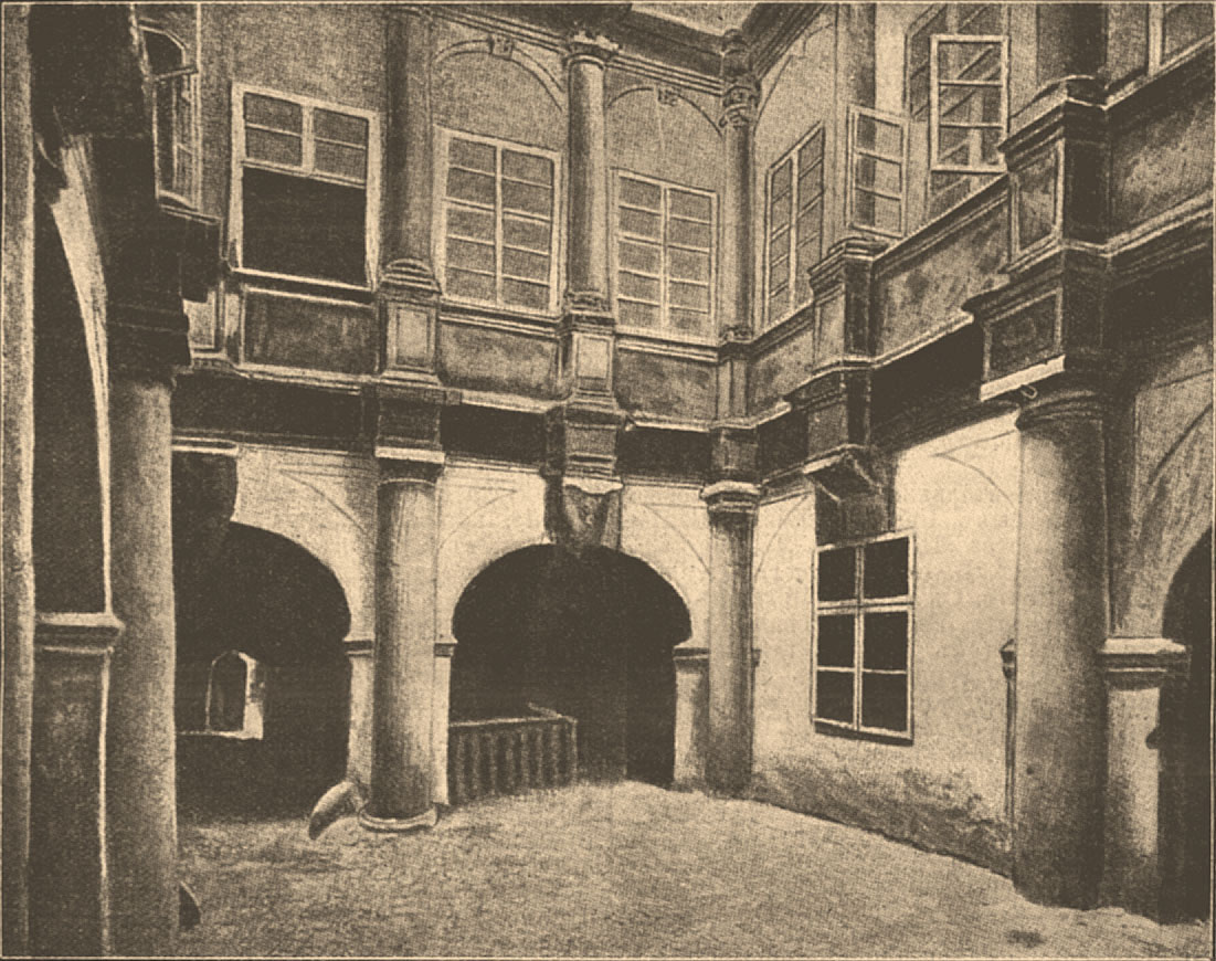 House of Jacob Bassevi in Prague. Illustration from Brockhaus and Efron Jewish Encyclopedia (1906—1913)